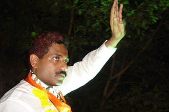 Sanjeev Naik - Compaigning